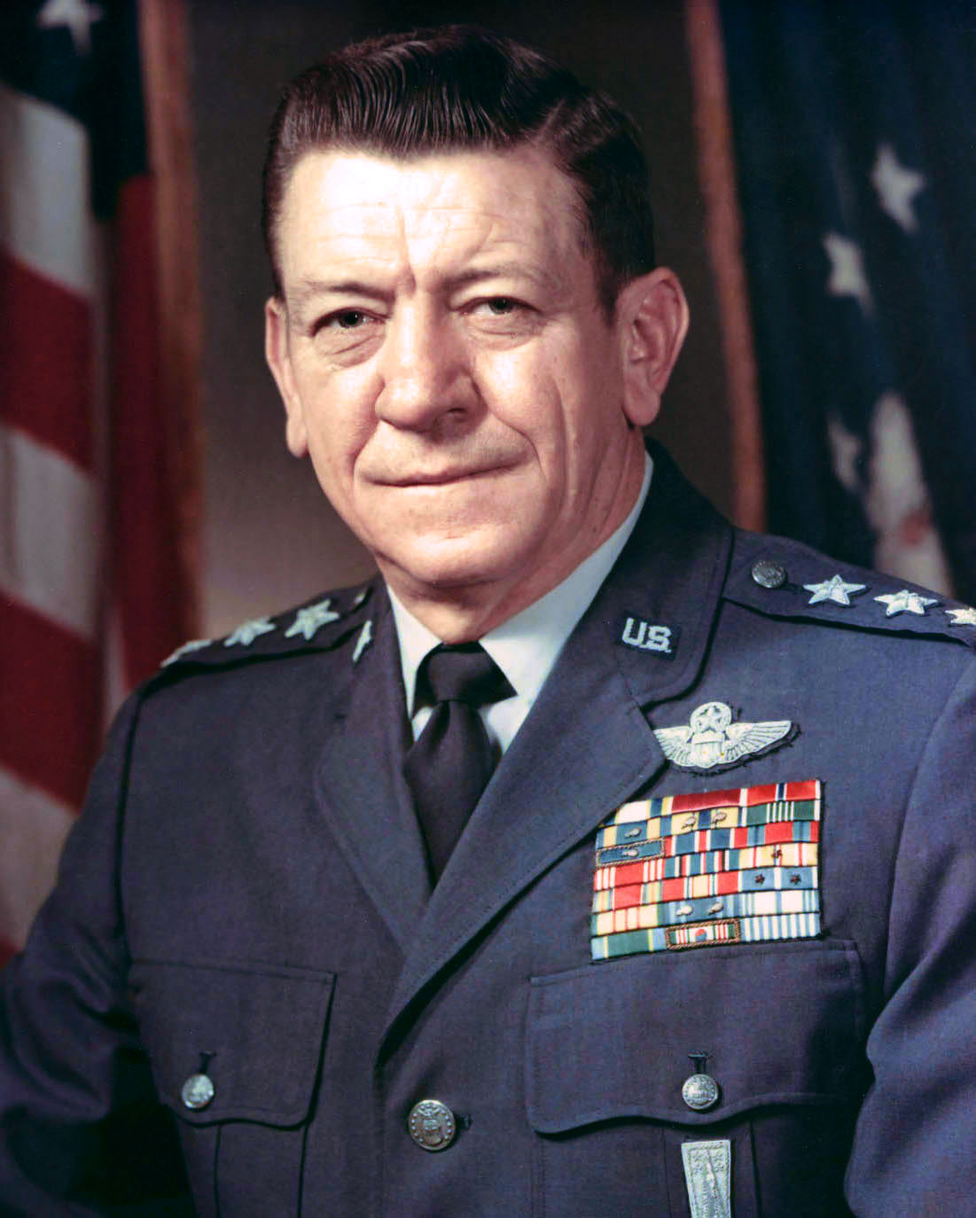 LGEN Robert E. Huyser pictured in an undated color portrait